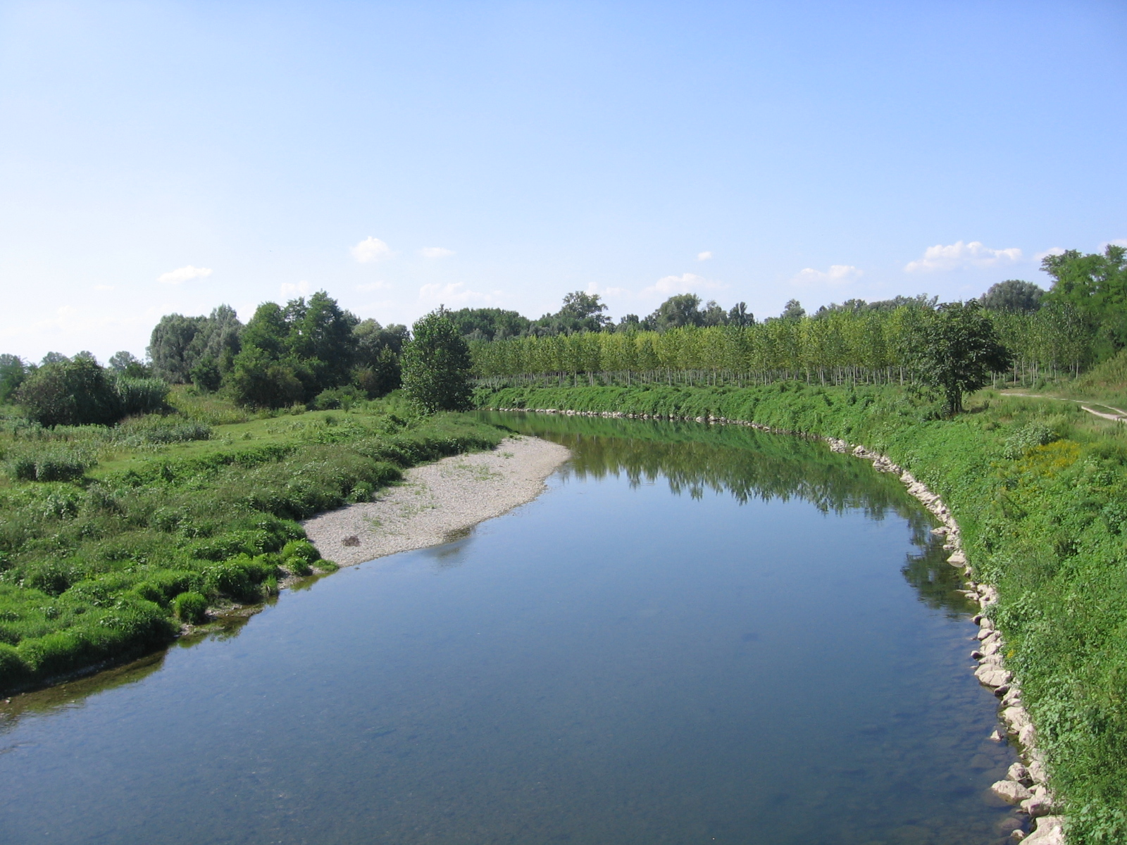 Serio river, Ricengo (Cremona), Italy